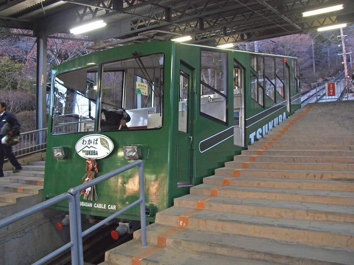 Funicular in Mount Tsukuba,Ibaraki,Japan. Taken at Miyawaki station.